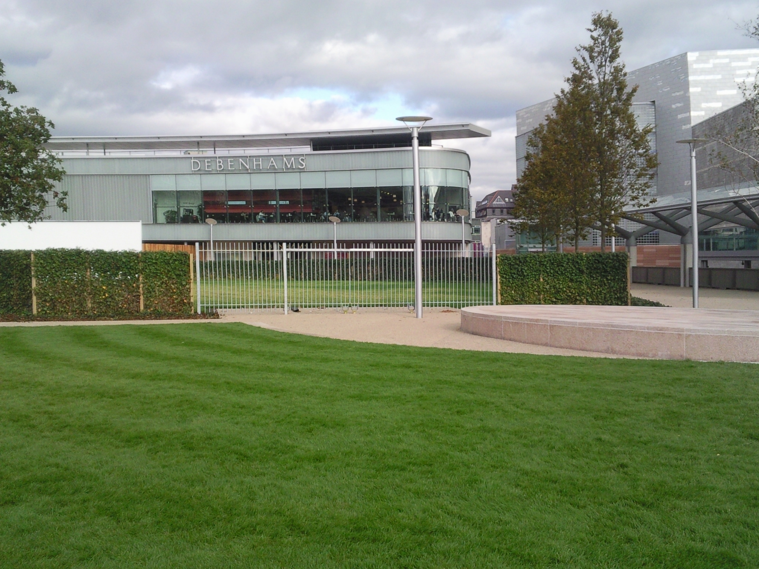 View of the flagship Debenhams store from Chavesse Park, Liverpool